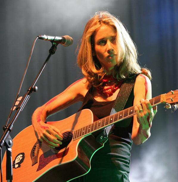 Heather Nova in Hanau